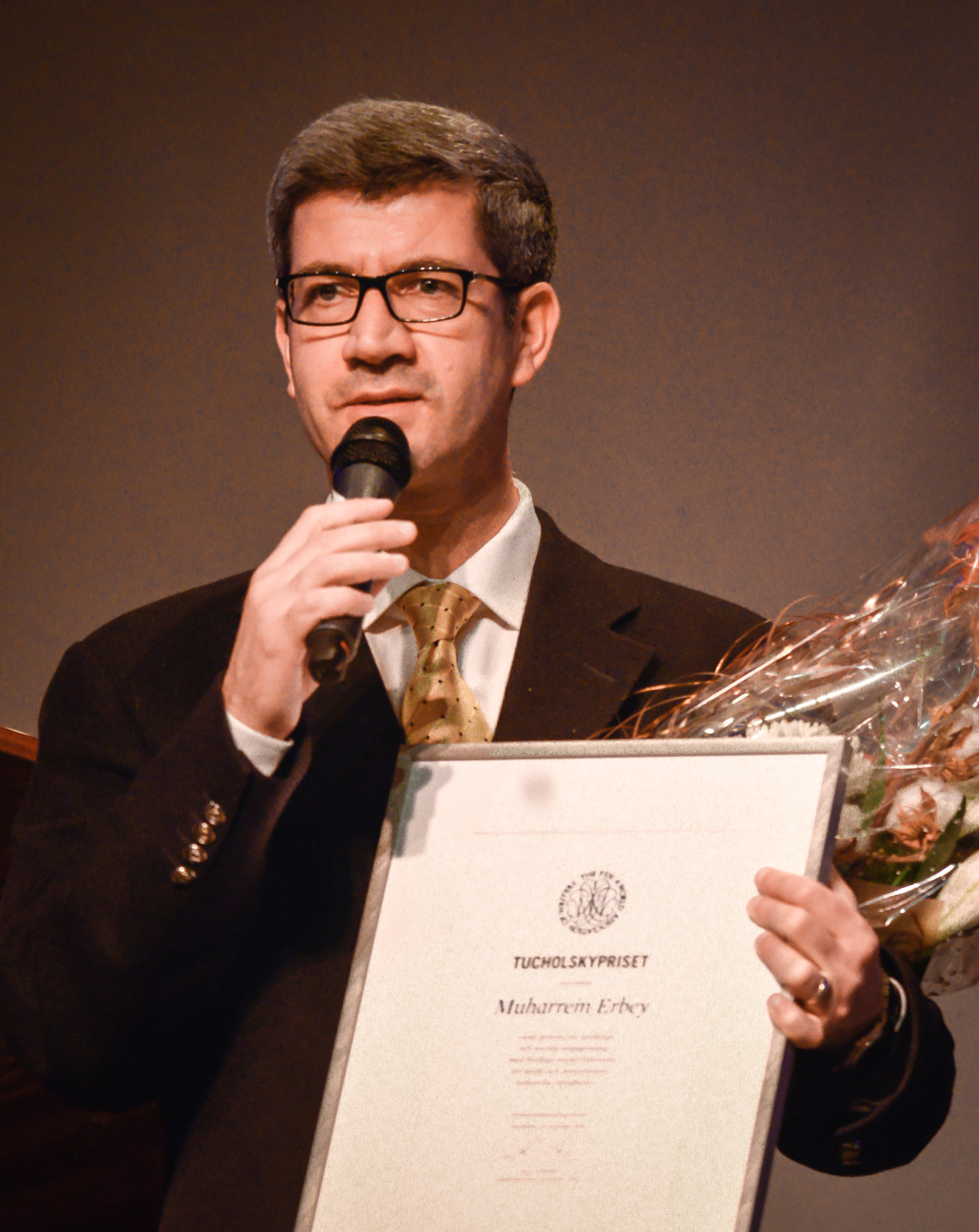 Muharrem Erbey during Imprisoned Writers' Day and the award of the Tucholsky Prize to Muharrem Erbey.